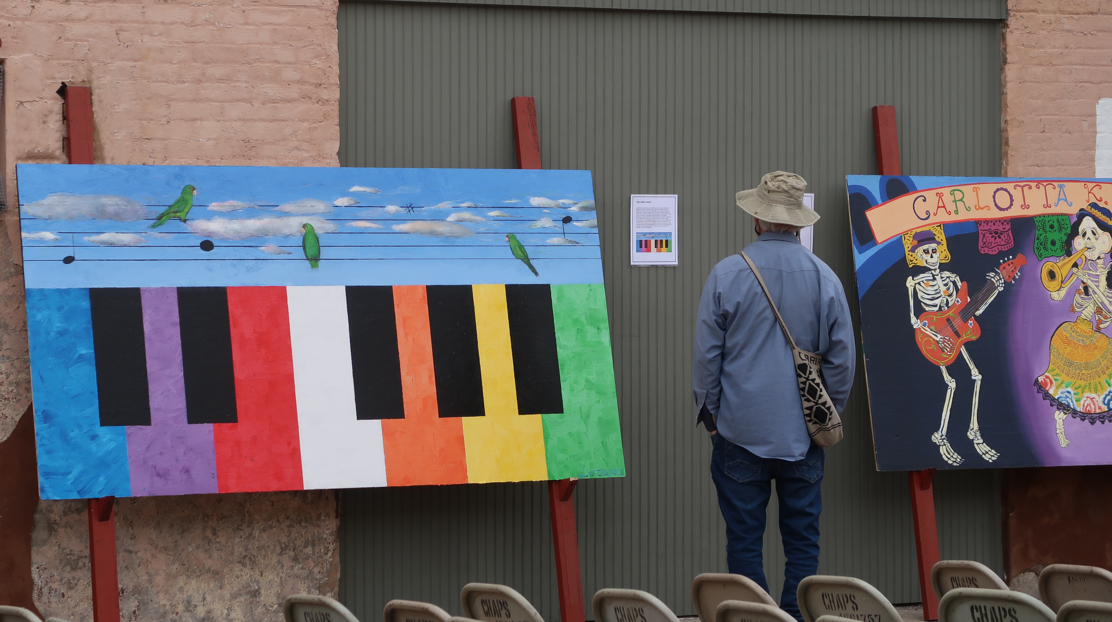 A man at the 23rd Annual Latin Jazz Festival looking at a painting by Jose Lozano titled "Color Notes".